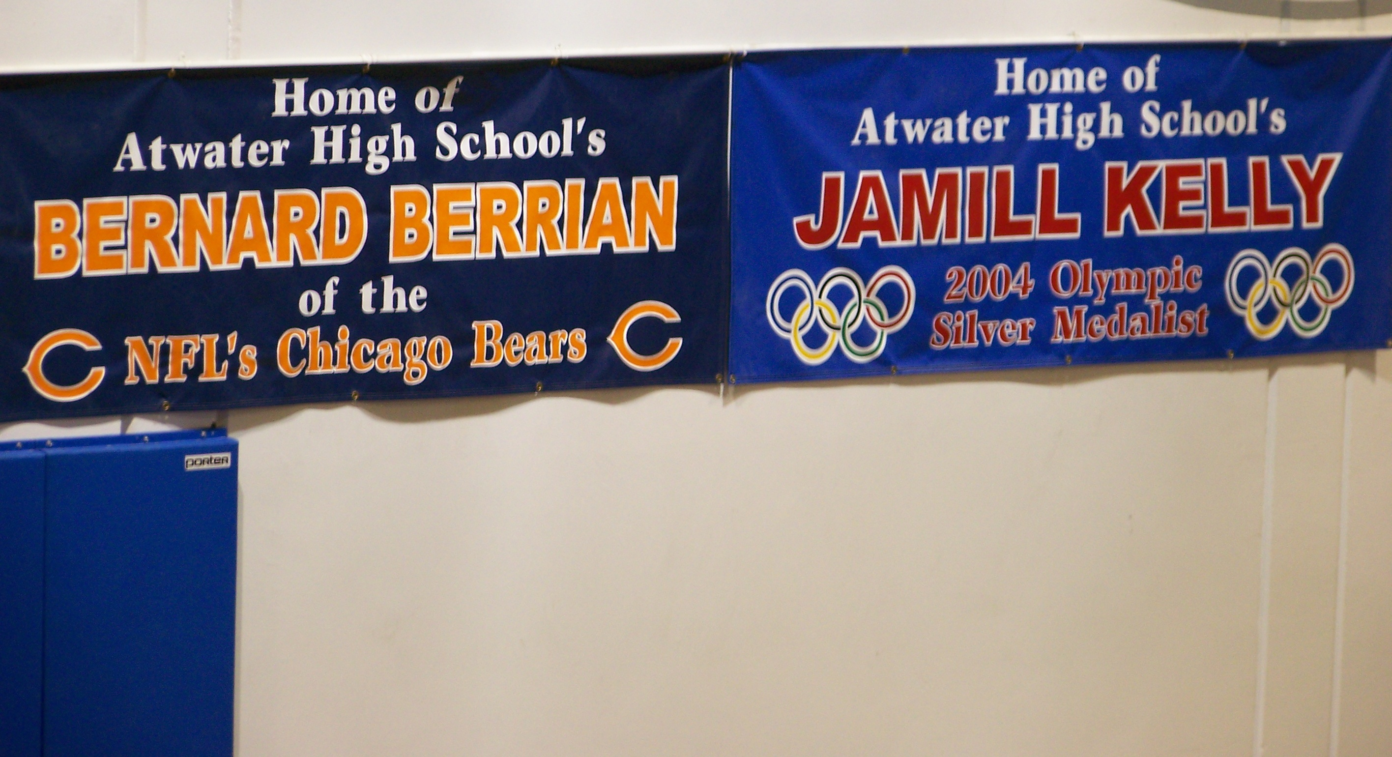 Banner at Atwater High School of Alumni Bernard Berrian and Jamill Kelly